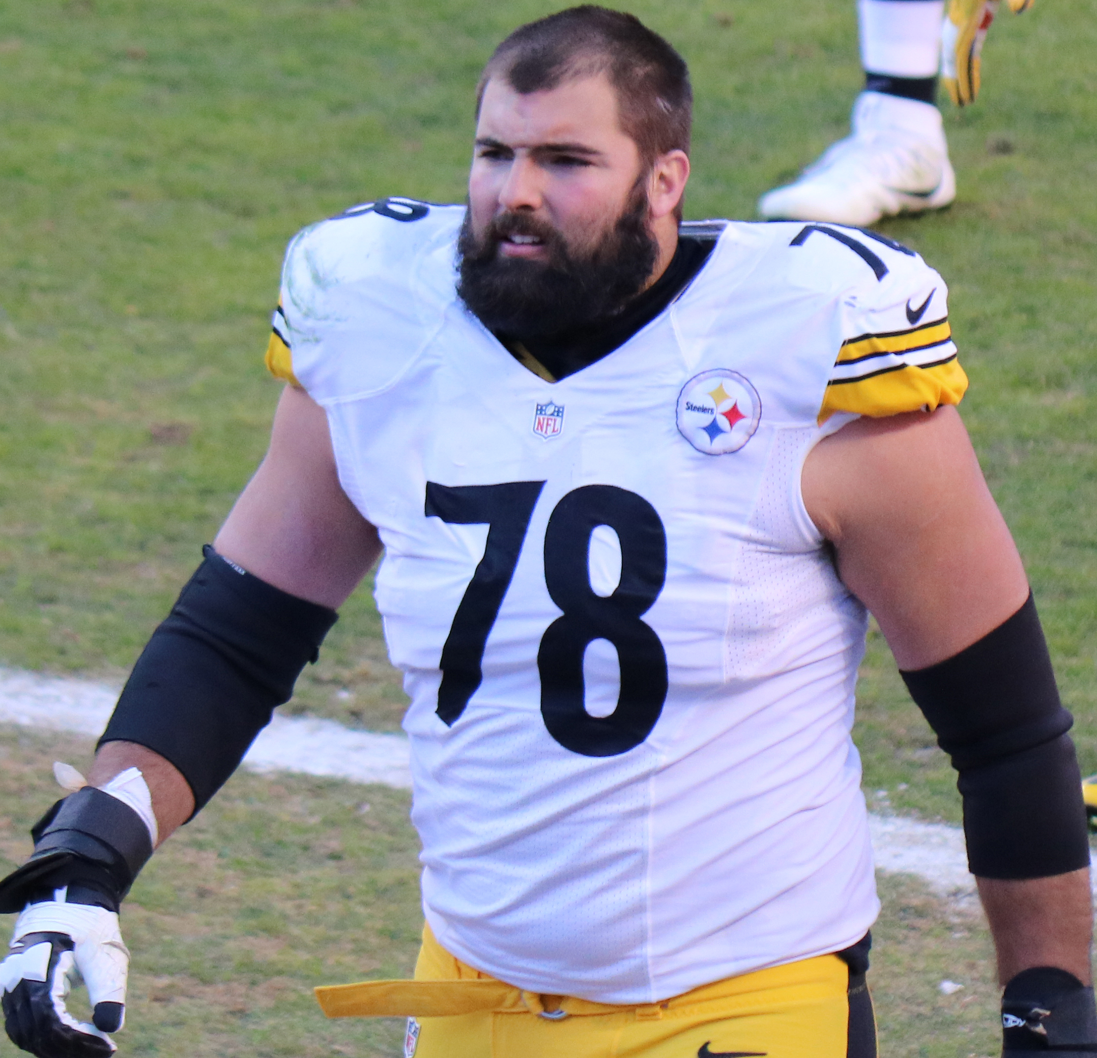 Alejandro Villanueva, a player on the National Football League.